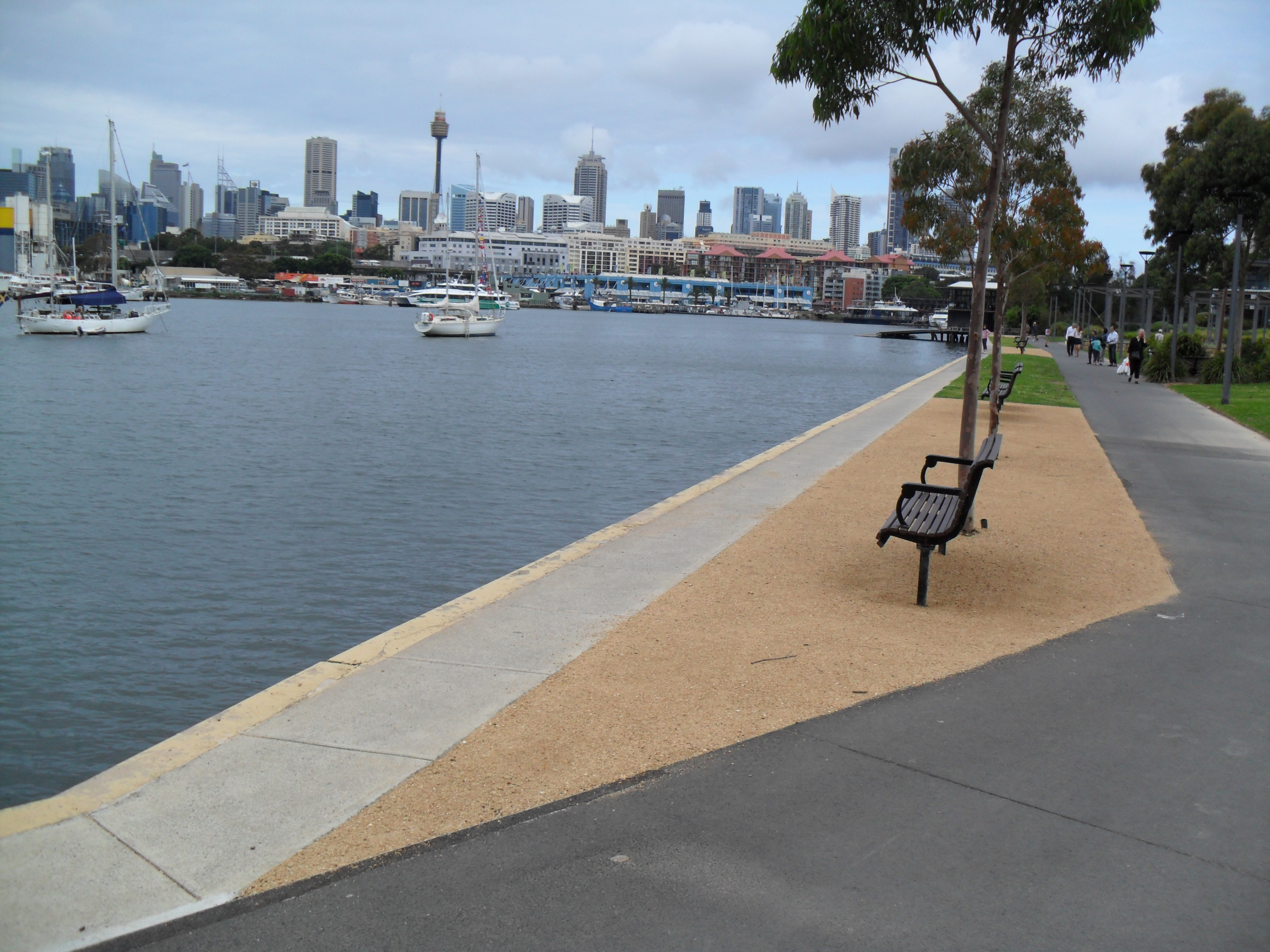 Blackwattle Bay Park, Glebe, New South Wales